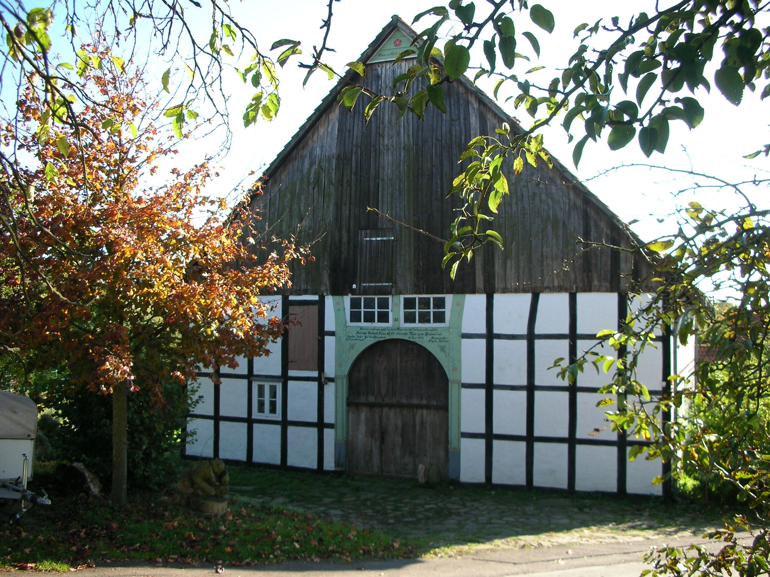 A timber framing built old farmer house in Alt-Schwelentrup, municipality Dörentrup,Germany